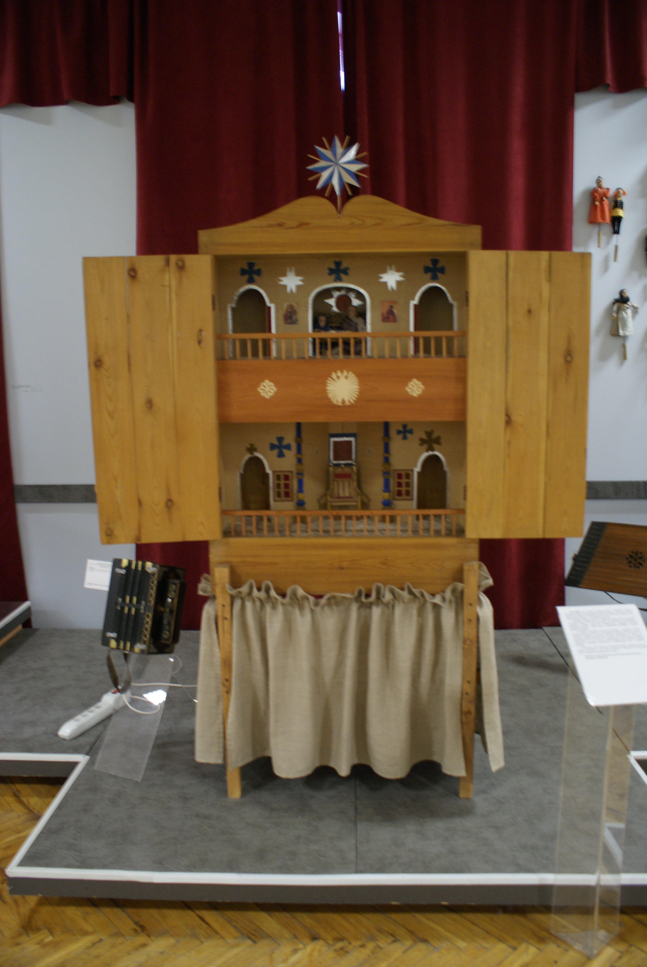 Batleika